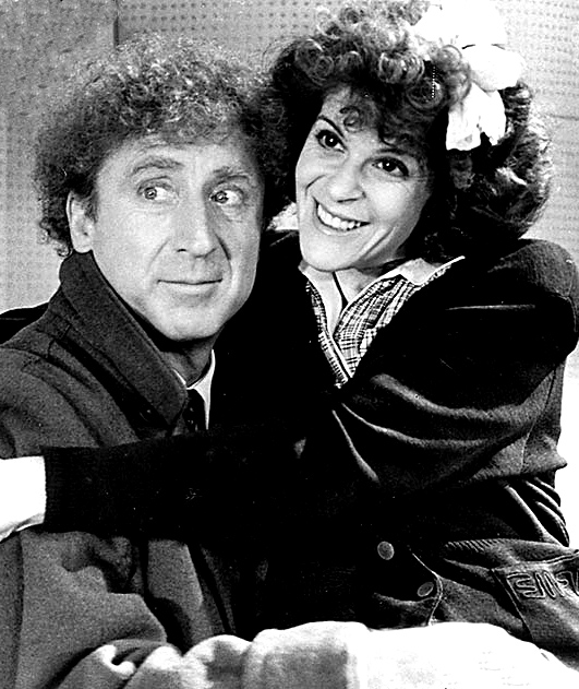 Autographed publicity of Gene Wilder and Gilda Radner for film Haunted Honeymoon.